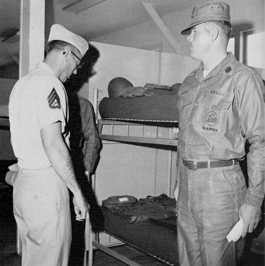 USMC barracks inspection during NMCB 74's military training at Camp Lejeune in March of 1968